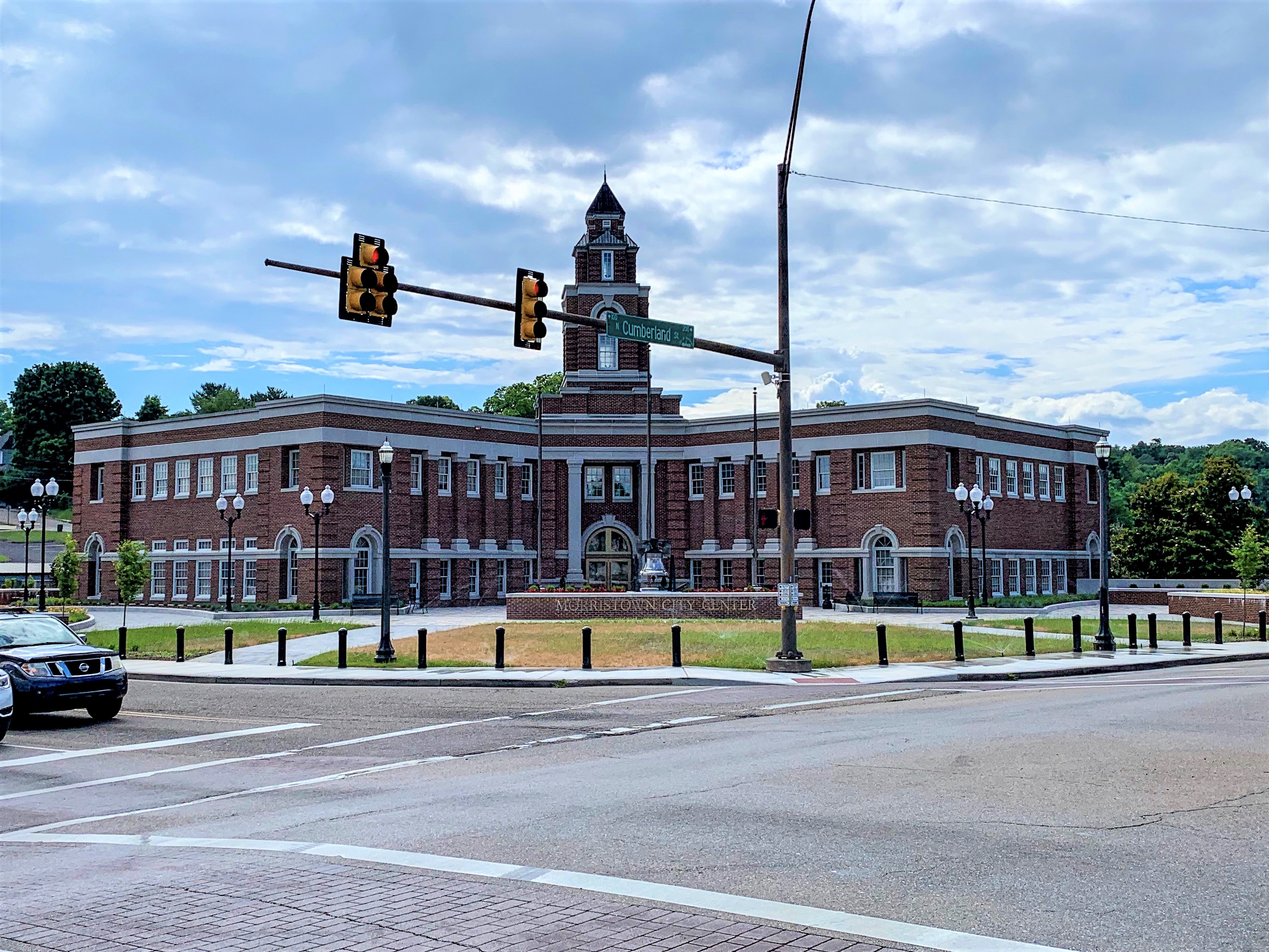 City Center in downtown Morristown at the corner of 1st North St. and North Cumberland St.